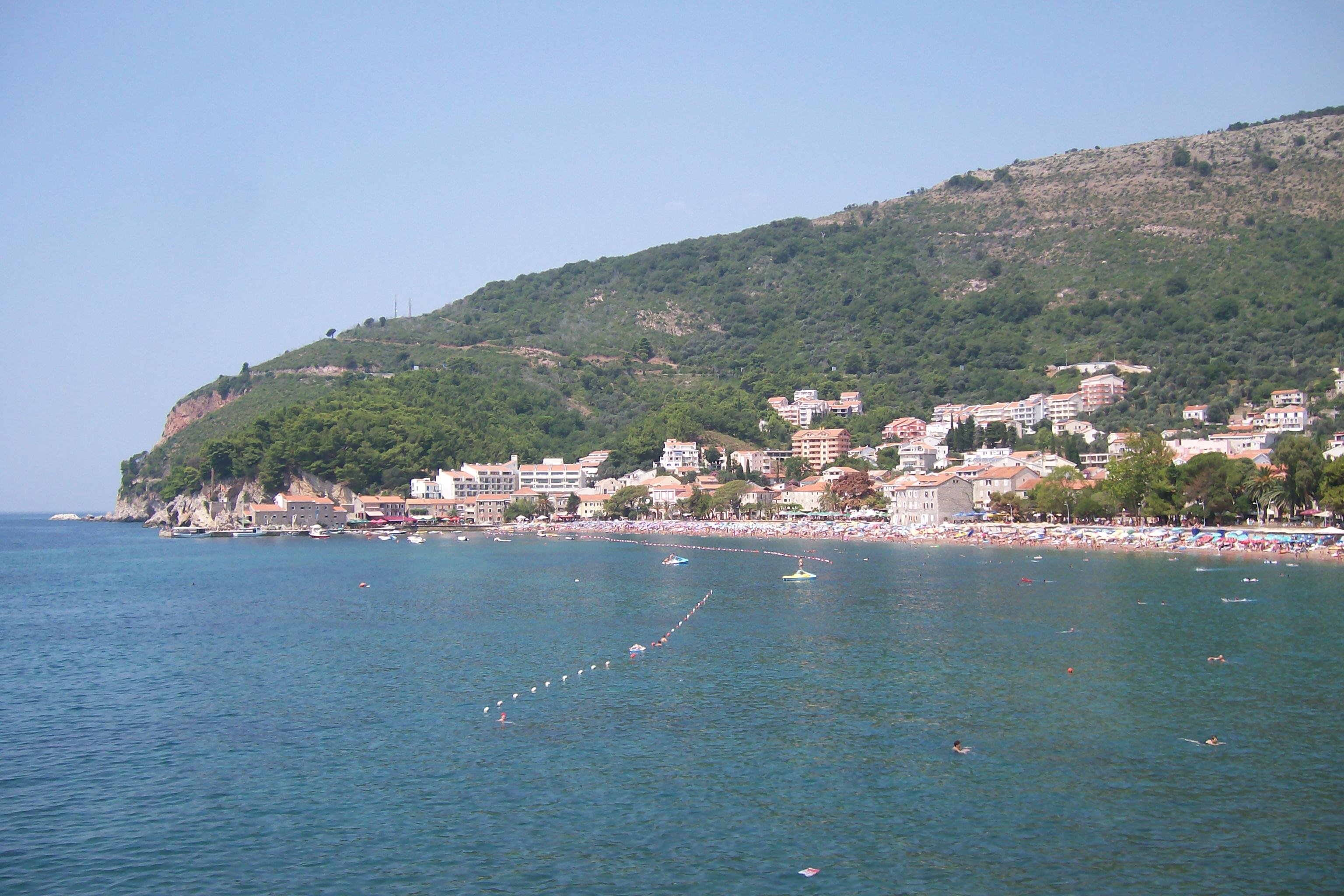 A view of the coastline of Petrovac in Montenegro. Editor's own work